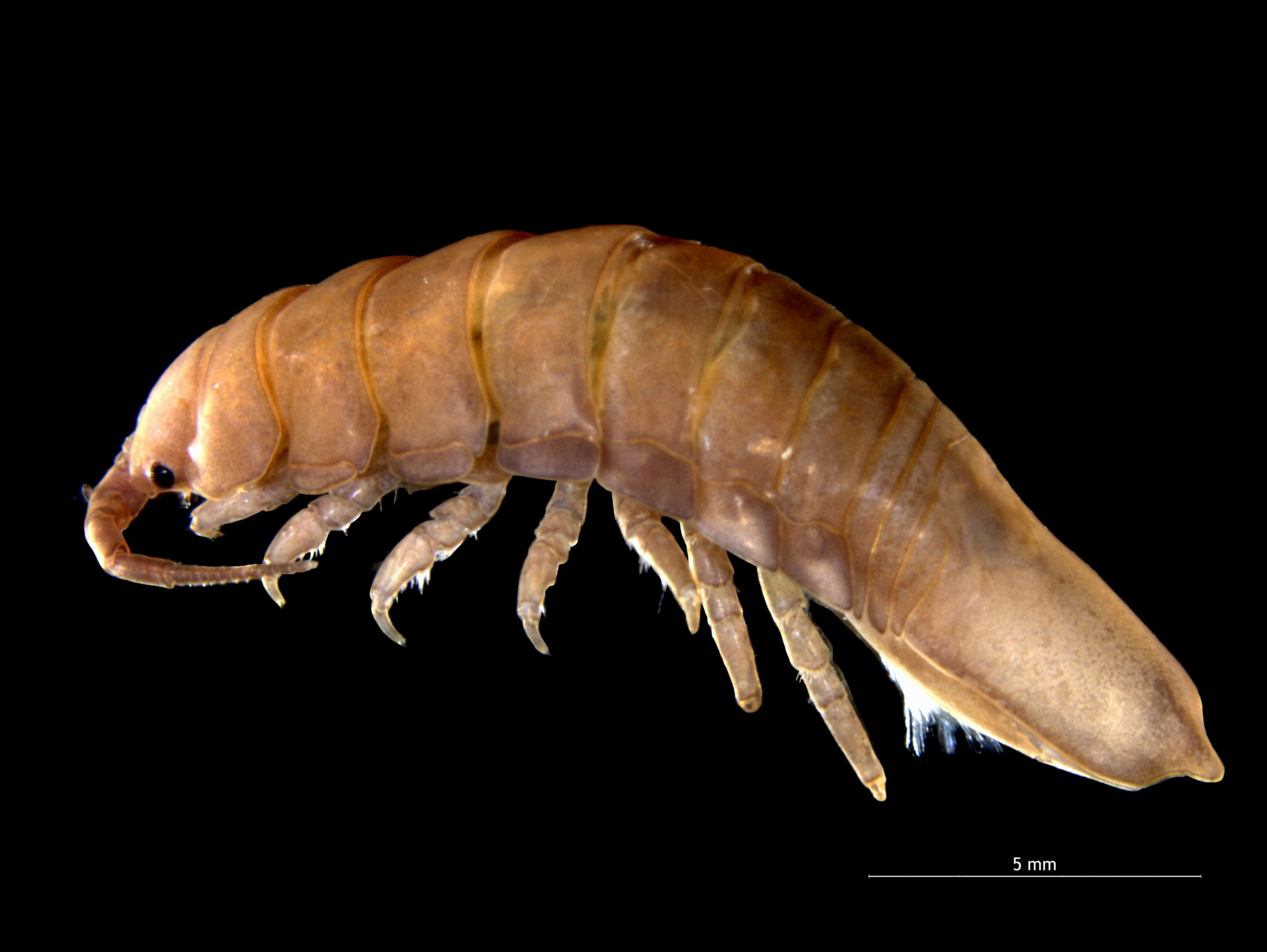 Dorsal view of a male marine isopod. Image taken with a Leica DFC 490 camera mounted on a Leica M205C binocular microscope. This is an intertidal species. Collected in 2011 at the port of Zeebrugge, Belgium. Length = ~23 mm